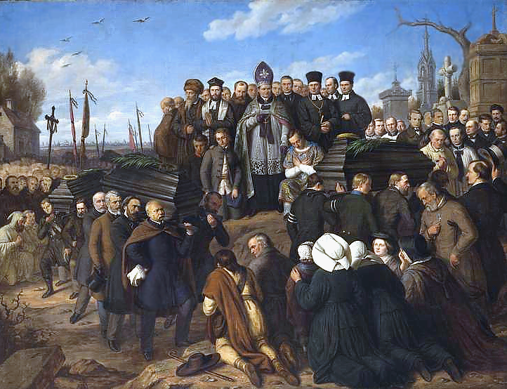 The Funeral of the Five Fallen in 1861, Burial of victims of Polish patriotic manifestations in Warsaw 1861 (Pogrzeb Pięciu Poległych)